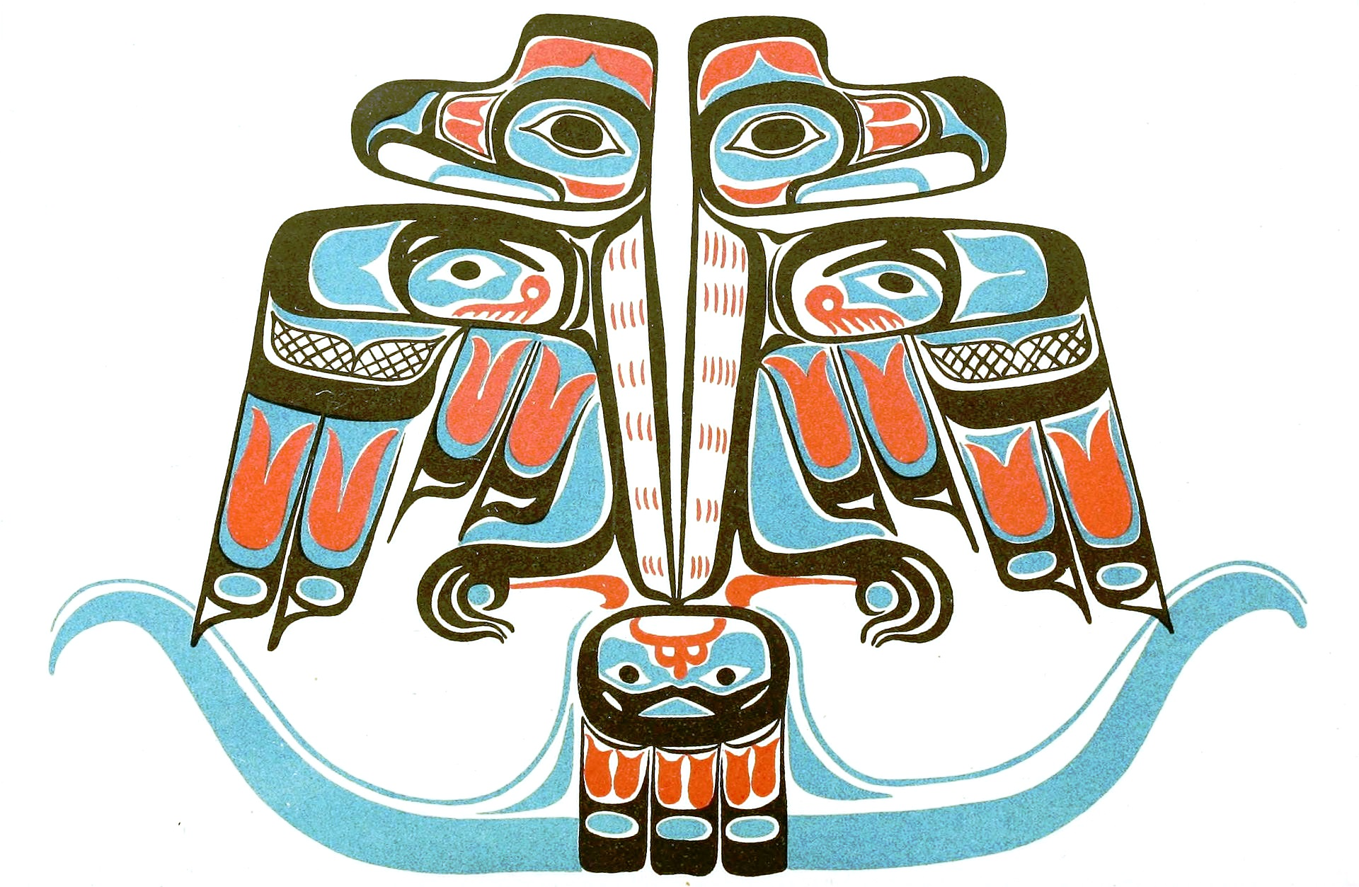 Title: Annual report of the Bureau of Ethnology to the Secretary of the Smithsonian Institution Year: 1880 (1880s) Authors: Smithsonian Institution. Bureau of Ethnology Subjects: Ethnology; Indians Publisher: Washington : G. P. O. Text Appearing Before Image: ' Text Appearing After Image: '